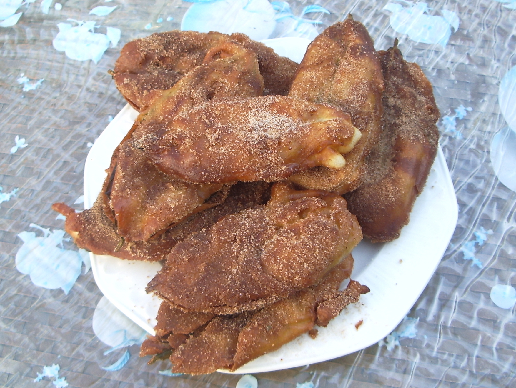 Paparajotes, made with lemon leaves batter, sweet of Murcia